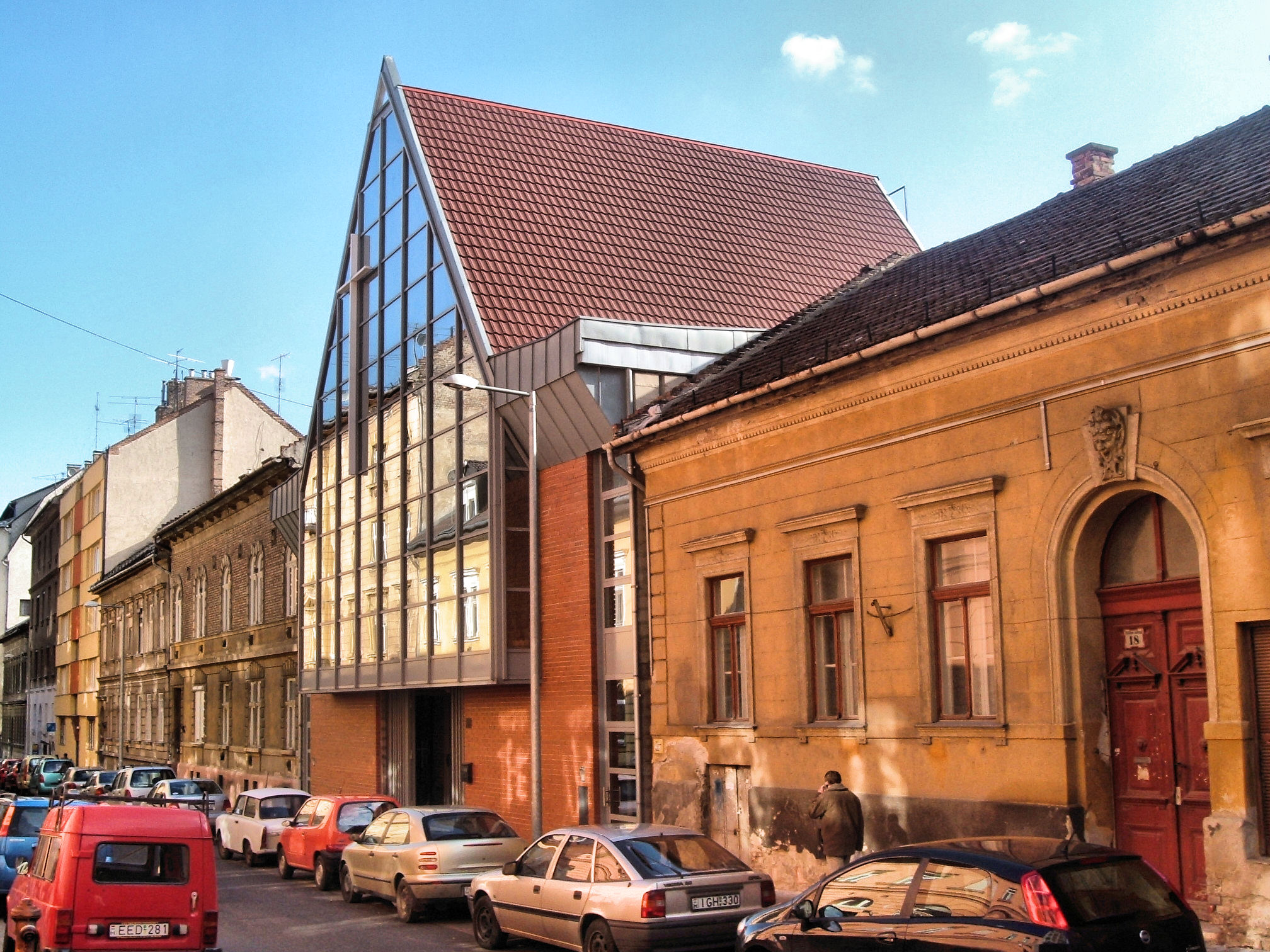 Táltos Street Roman Catholic Church, Budapest. Architect: István Szabó, 1976-1979. Rebuilt by Péter Pottyondy, 2001.